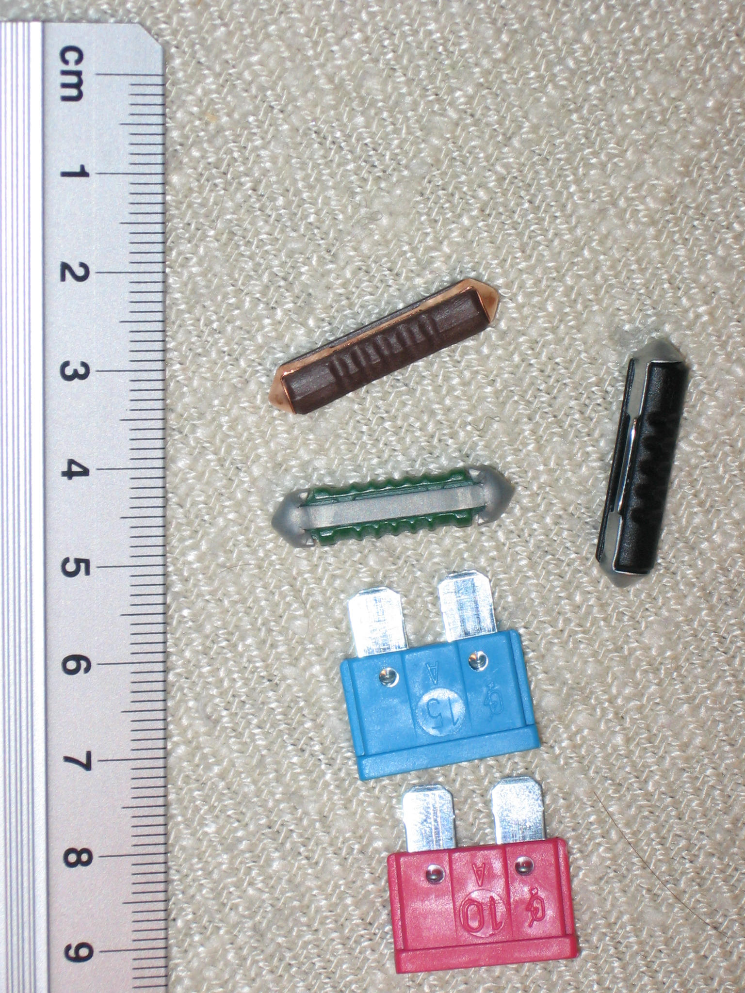 Car fuses